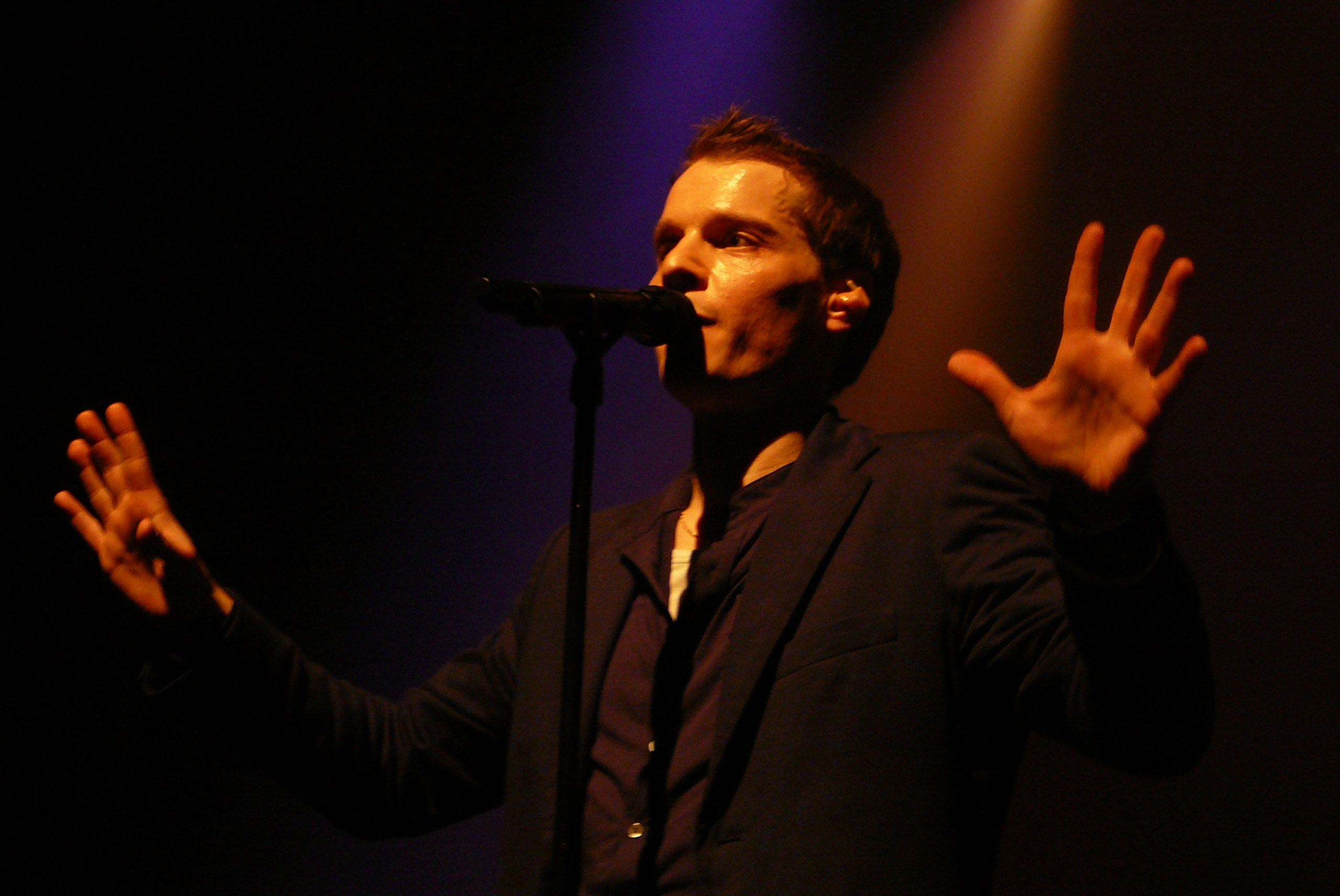 Bénabar in concert in Brussels (Ancienne Belgique)